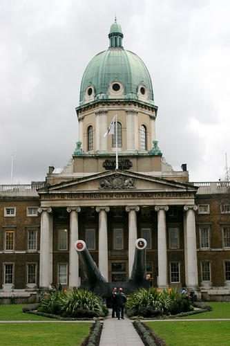 Taken by Nick Fraser in Feb 2006. Front entrance of Imperial War Museum, London.